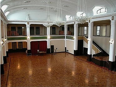 Location of Japanese WW2 Surrender of Taiwan in Zhongshan Hall, Taipei.